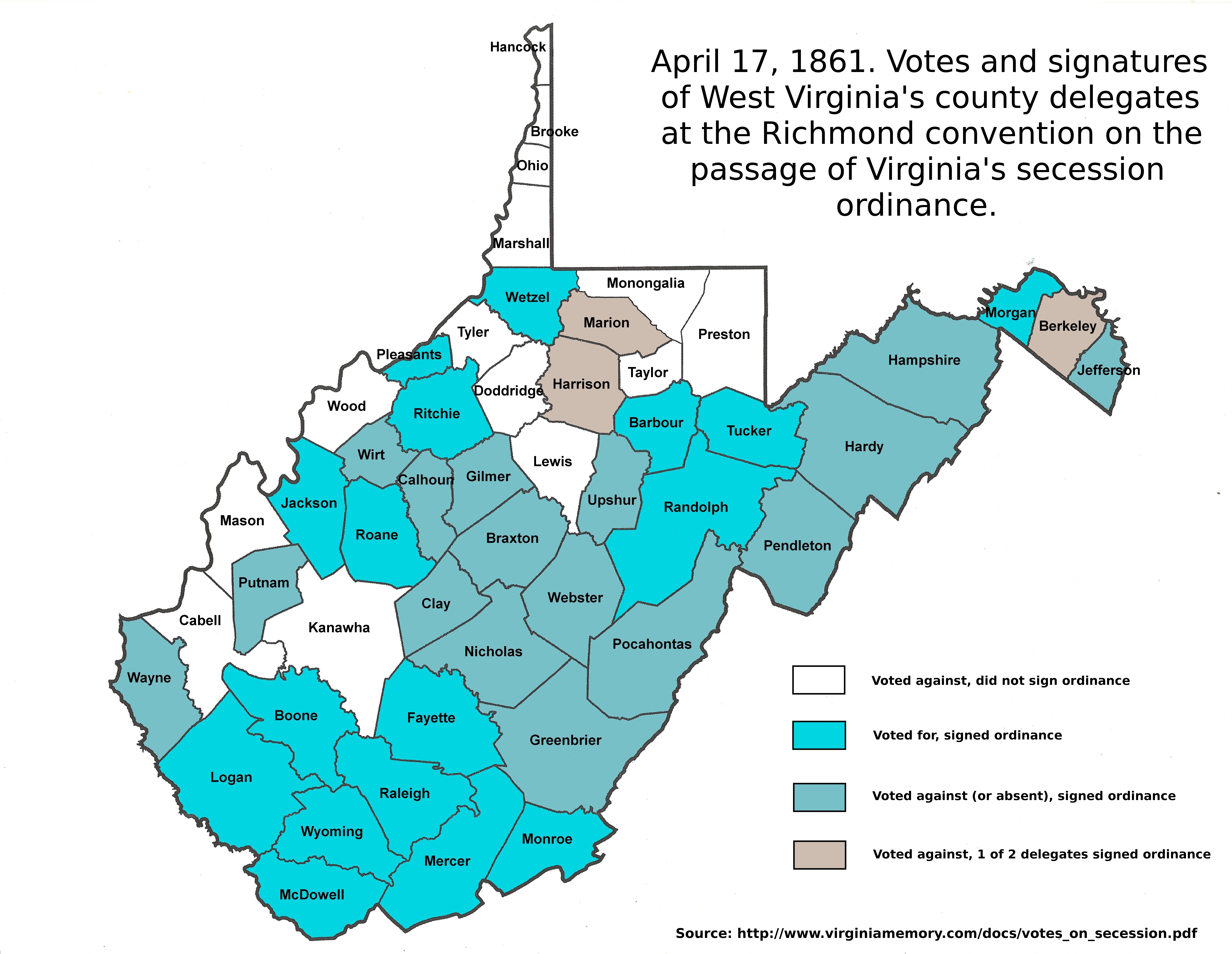 This map shows the delegate votes on Jun 17, 1861, when a secession ordinance from the United States was passed by a convention of county delegates. This map shows the delegate vote from the future counties that would become West Virginia, and whether they signed the secession ordinance or not. The information was obtained from the Library of Virginia's website